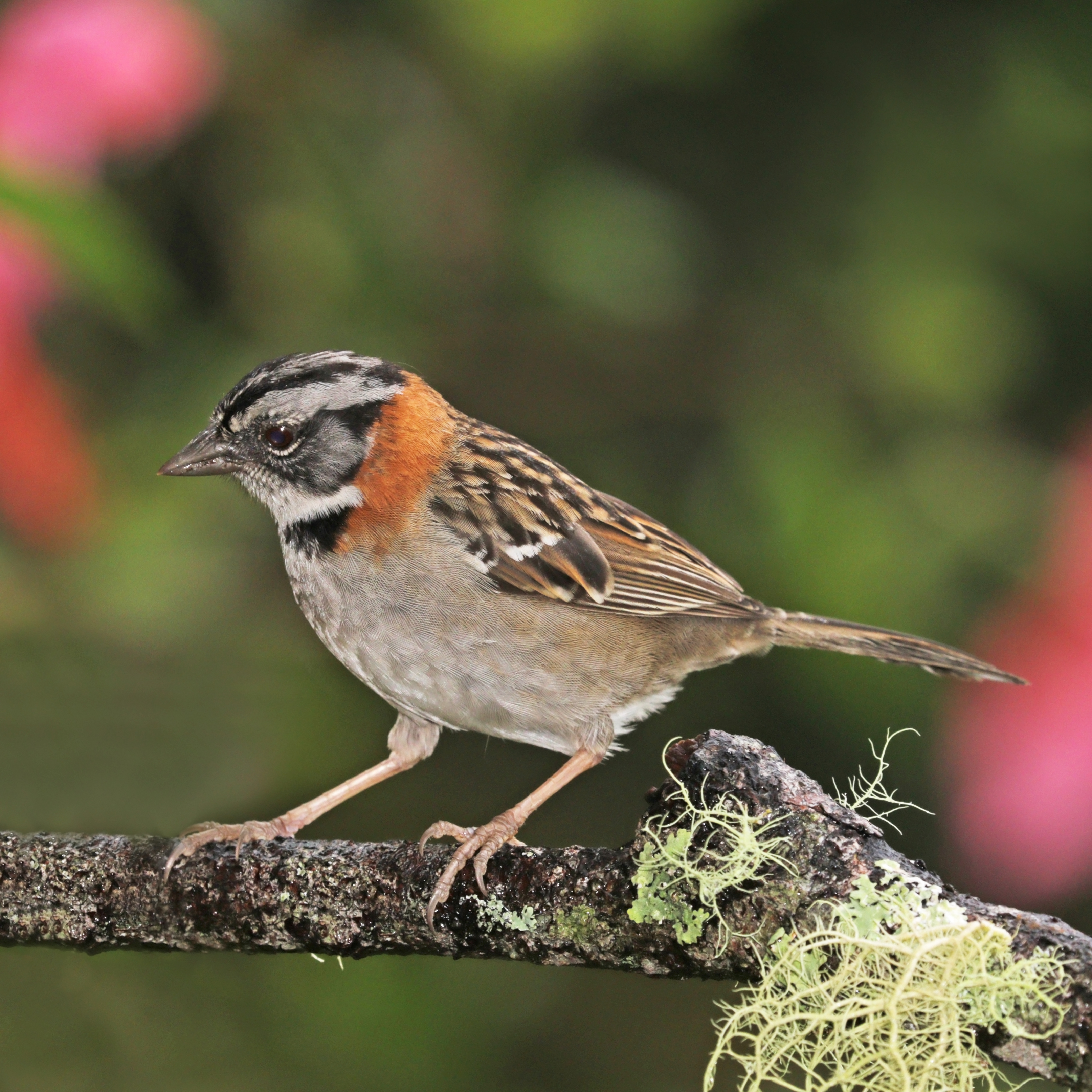 Rufous-collared sparrow (Zonotrichia capensis costaricensis), Mount Totumas cloud forest , Panama